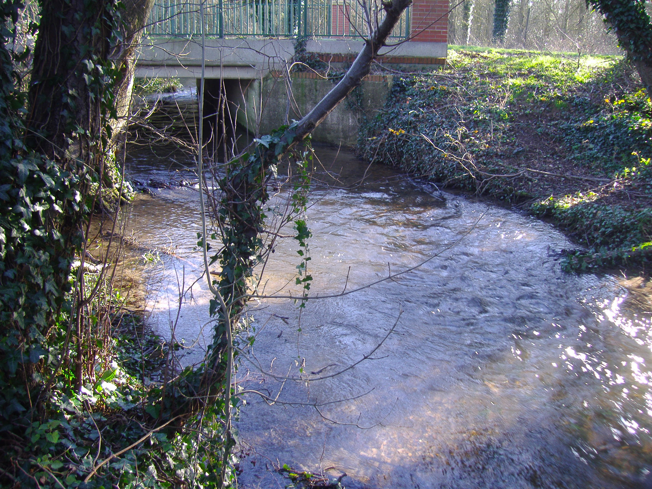 A Digital Photograph of the River Babingley near Sandringham by M Hobbs 24/03/2007